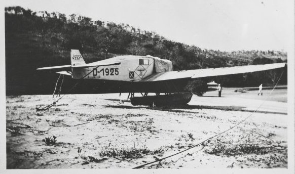 Junkers W-33 seaplane D-1925 Atlantis crewed by Hans Bertram and Adolph Klausman on beach after running out of fuel, Western Australia, 1932